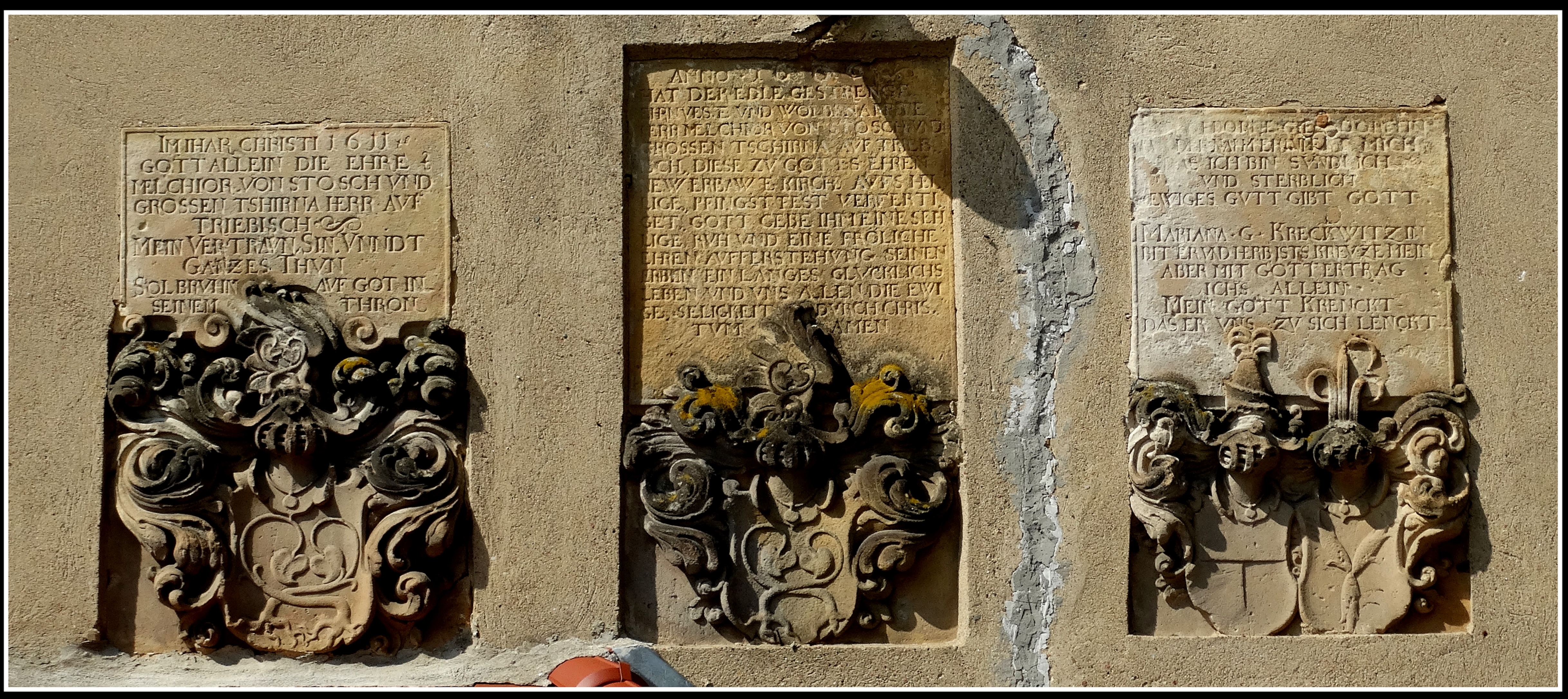 Our Lady of Częstochowa church in Trzebosz, Poland (above the entrance to the porch embedded three stone tablets, are epitaphs relating to: the left - Melchior von Stosch, right - Eva von Gersdorff and Mariana von Kreckwitz with heraldic cartouches, the middle - it concerns the foundation of the church)